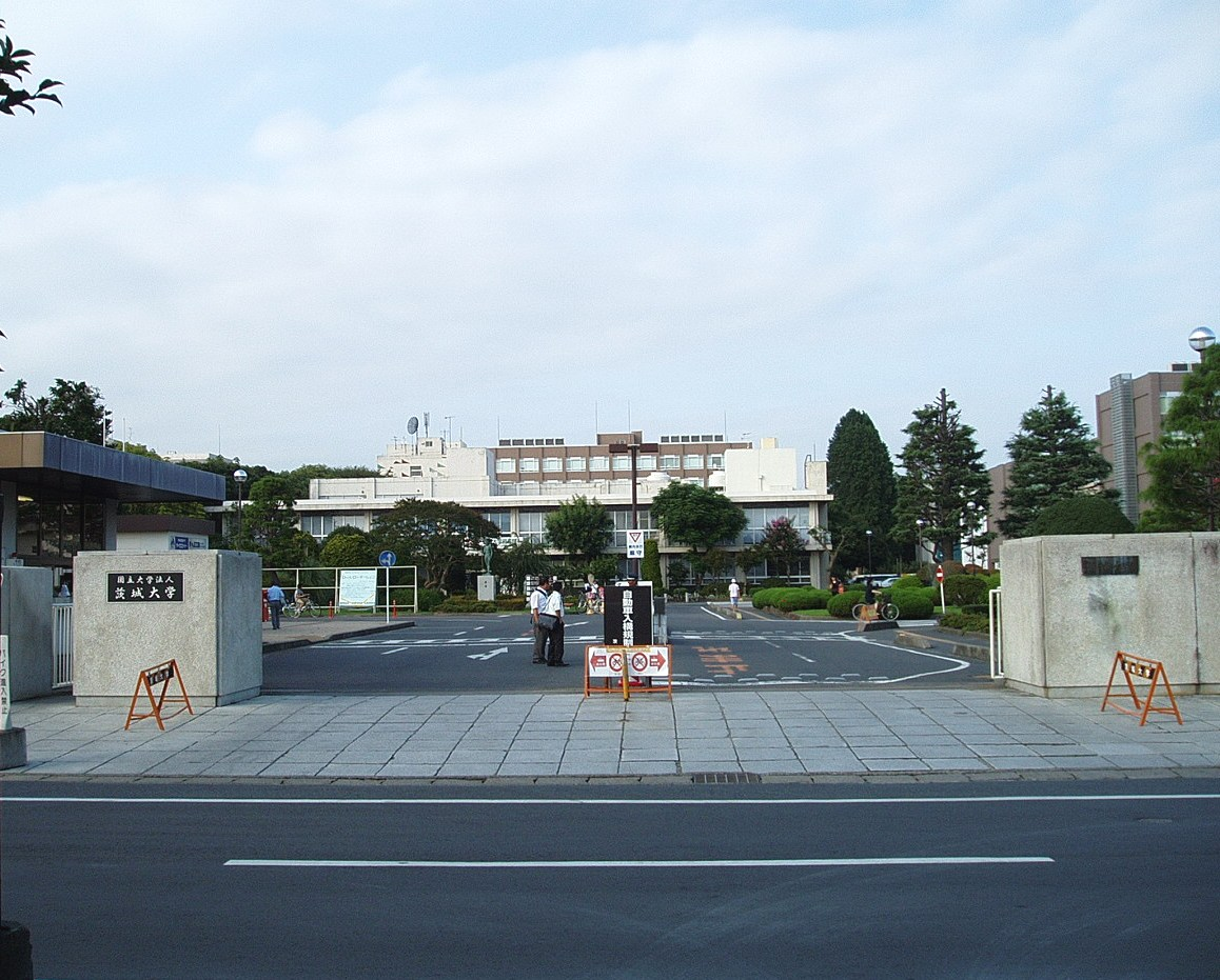 The main gate of Mito Campus, Ibaraki University. Located in Mito, Ibaraki, Japan.